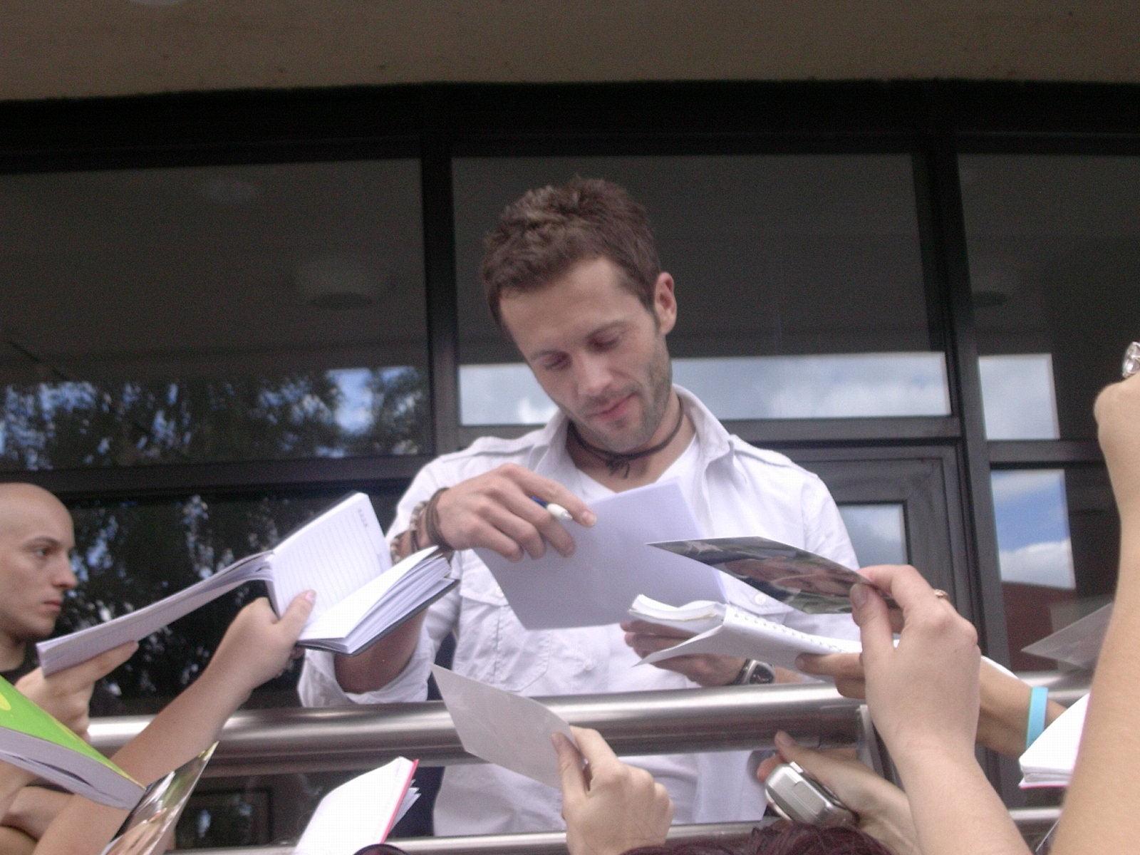 Meeting fans with actors of polish popular serials L as love in Bydgoszcz near to the Opera Nova.